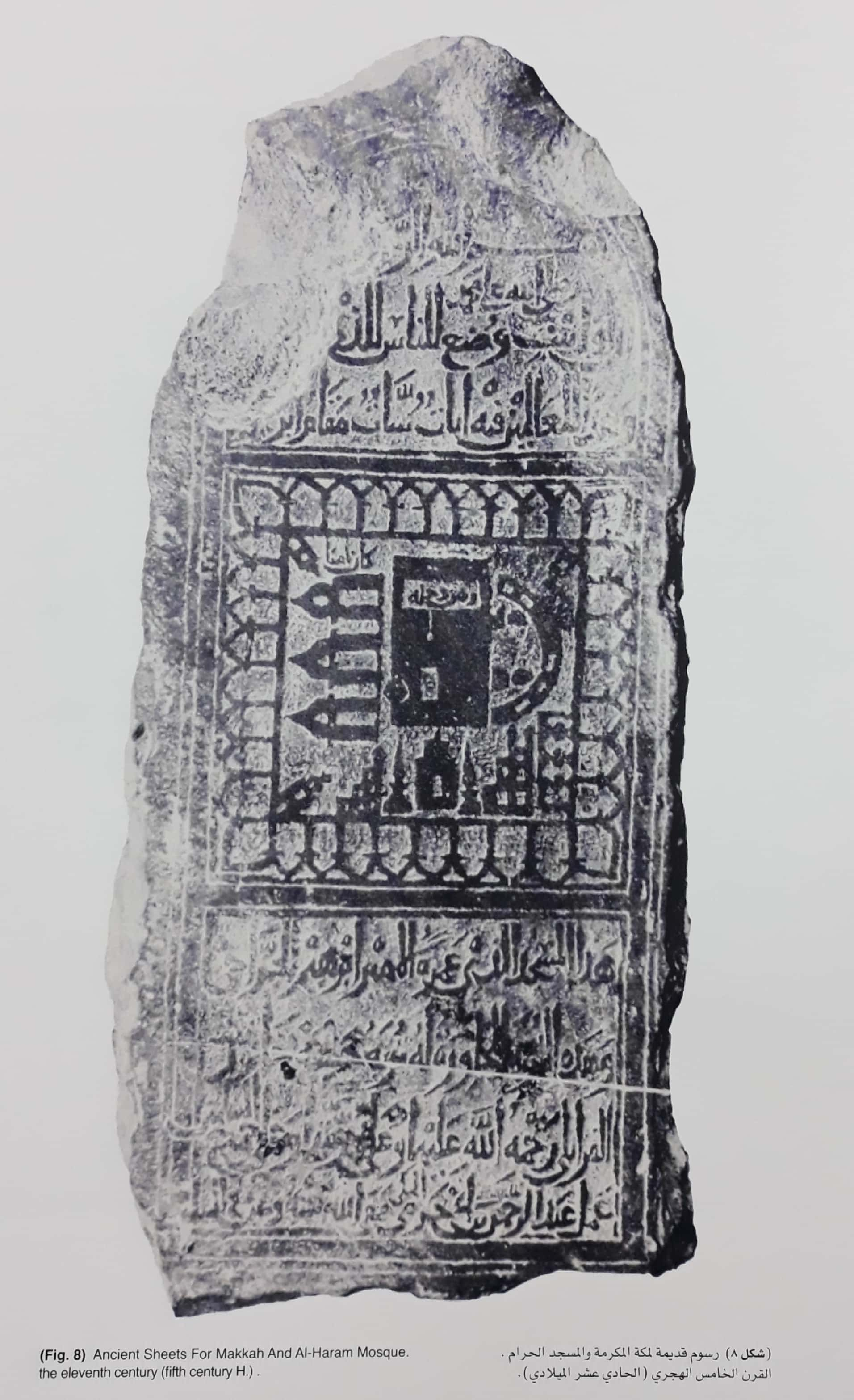 Ancient Sheets For Makkah and Al-Haram Mosque, The eleventh century (Fifth century H.).